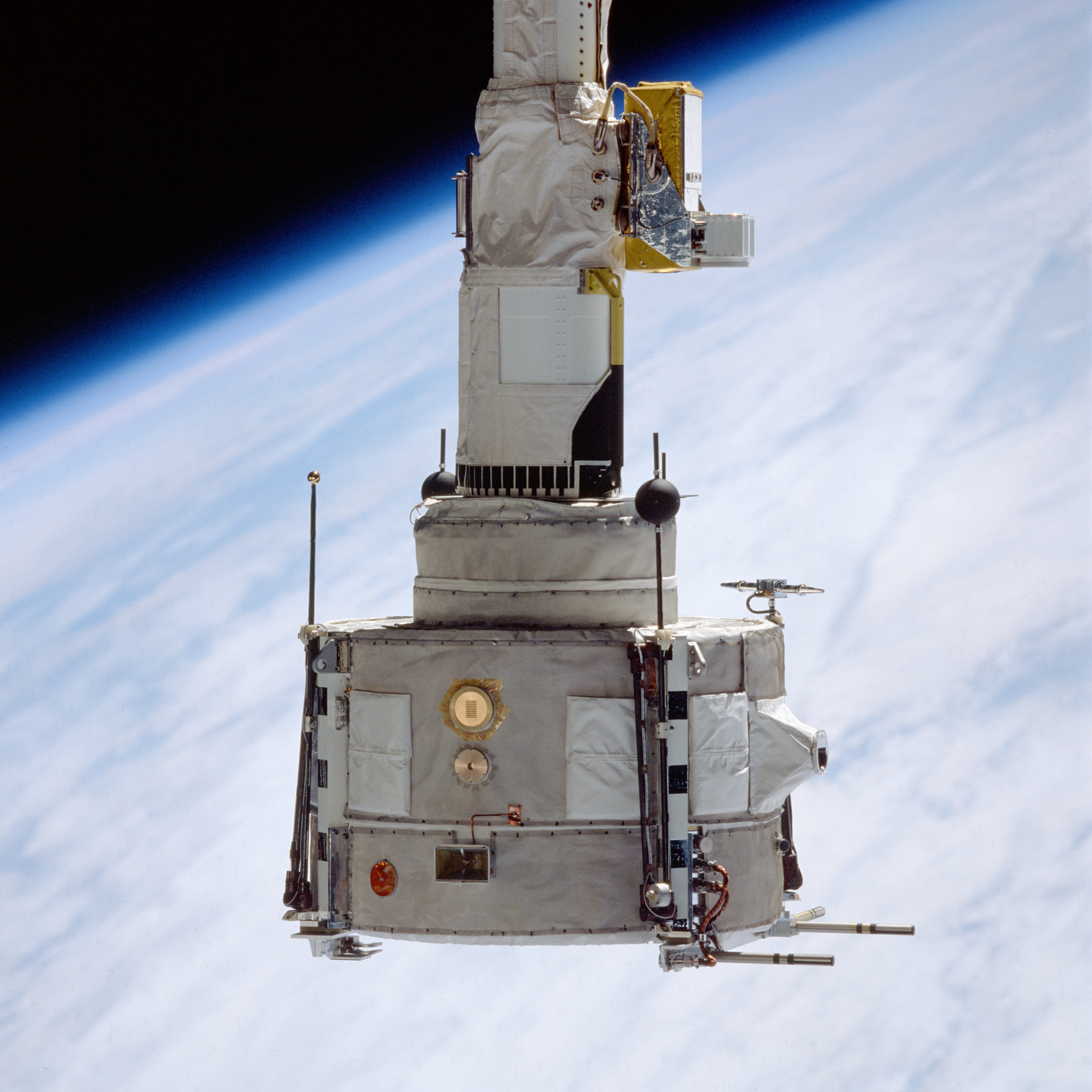 Close-up view of the Plasma Diagnostics Package (PDP) attached to an end effector on the remote manipulator system (RMS) arm. It is seen against a cloudy earth surface in the background.